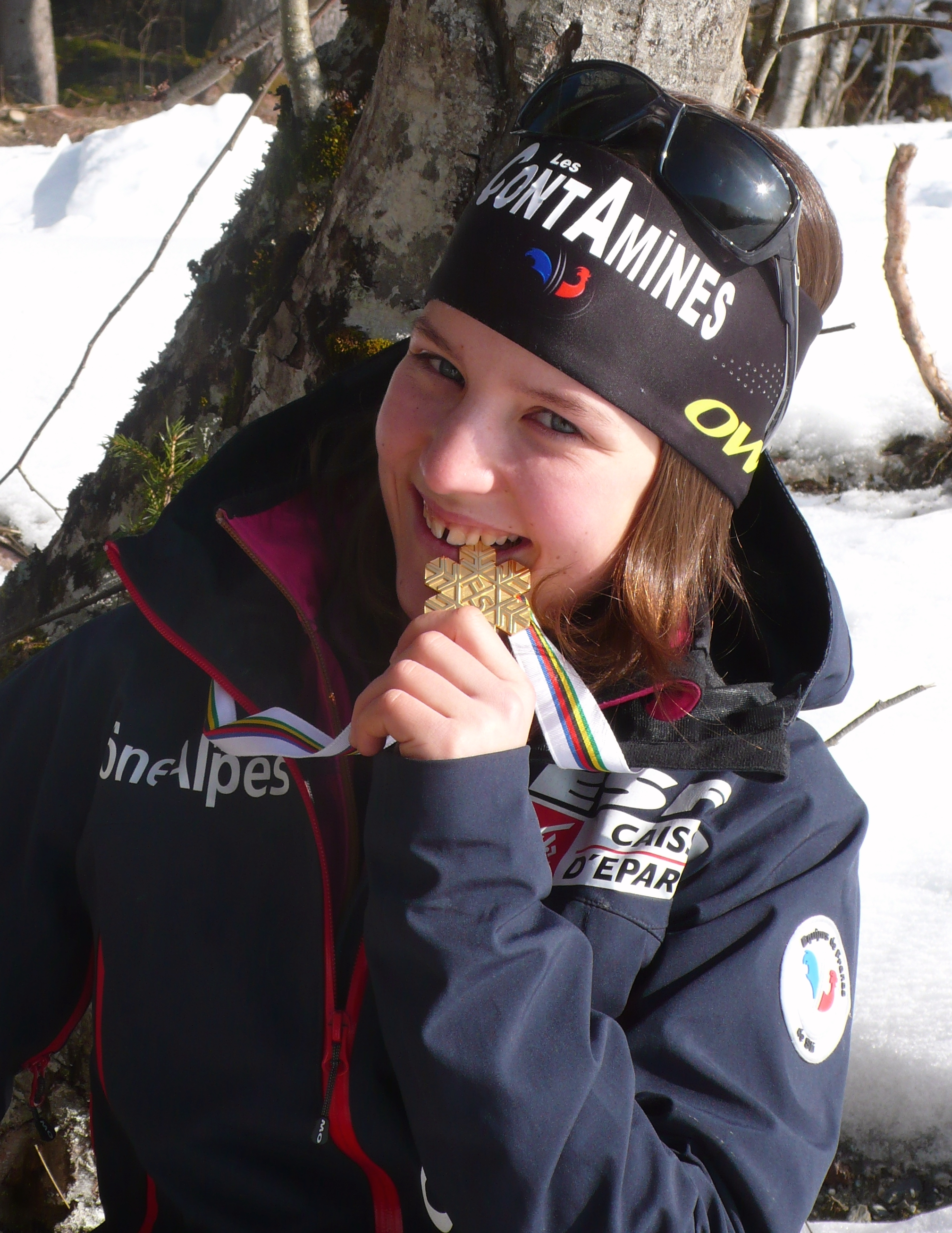 Coline Mattel, with her gold medal from World Junior Championship, Otepää 2011.